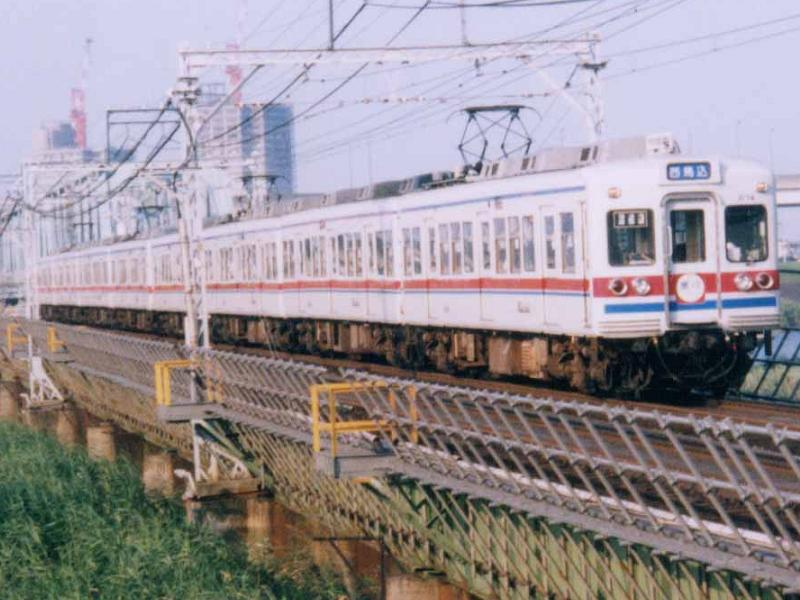 Keikyu 3174 running on Arakawa river bridge between Yahiro and Yotsugi